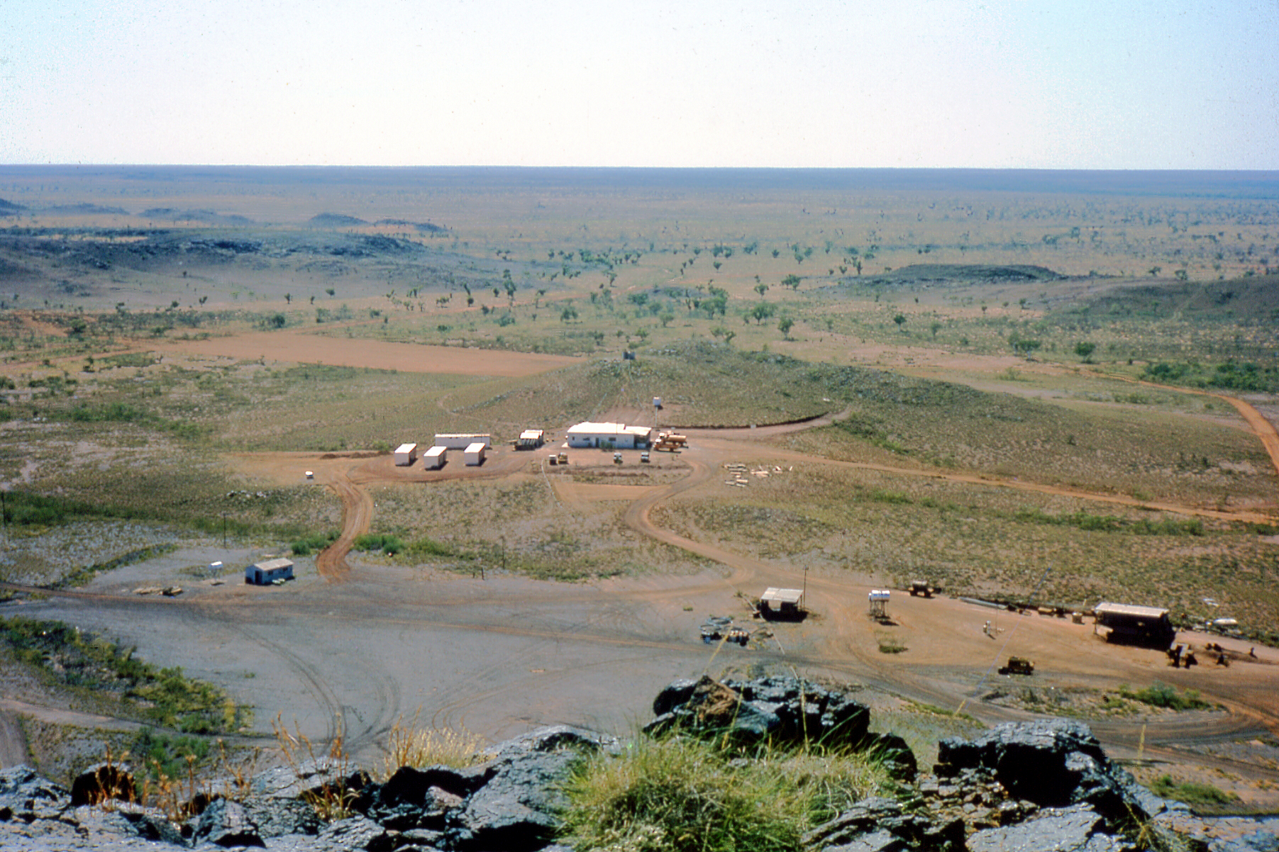 The original exploration camp at Mount Goldsworthy during exploritory drilling to prove ore reserves. The expansion of the workforce during this period necessitated the addition of "dongas" to supplement the original steel framed shed visible in the photograph that was used for accomodation as well as a works office. This photograph was taken from the knob on top of the range looking northwards. This position of the photo is on the western end of the pit that remains. See also Mount_Goldsworthy_Knob.jpg for another view looking westwards from this same location